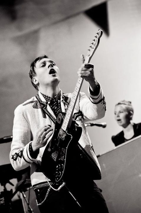 Win Butler performing with Arcade Fire in Ireland